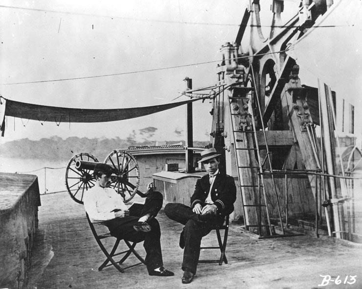 Some officers sitting on deck of the USS Hunchback in 1864 or 1865. The gun in the background that can be seen in the background is a 12 pound Dahlgreen smooth bore howitzer.